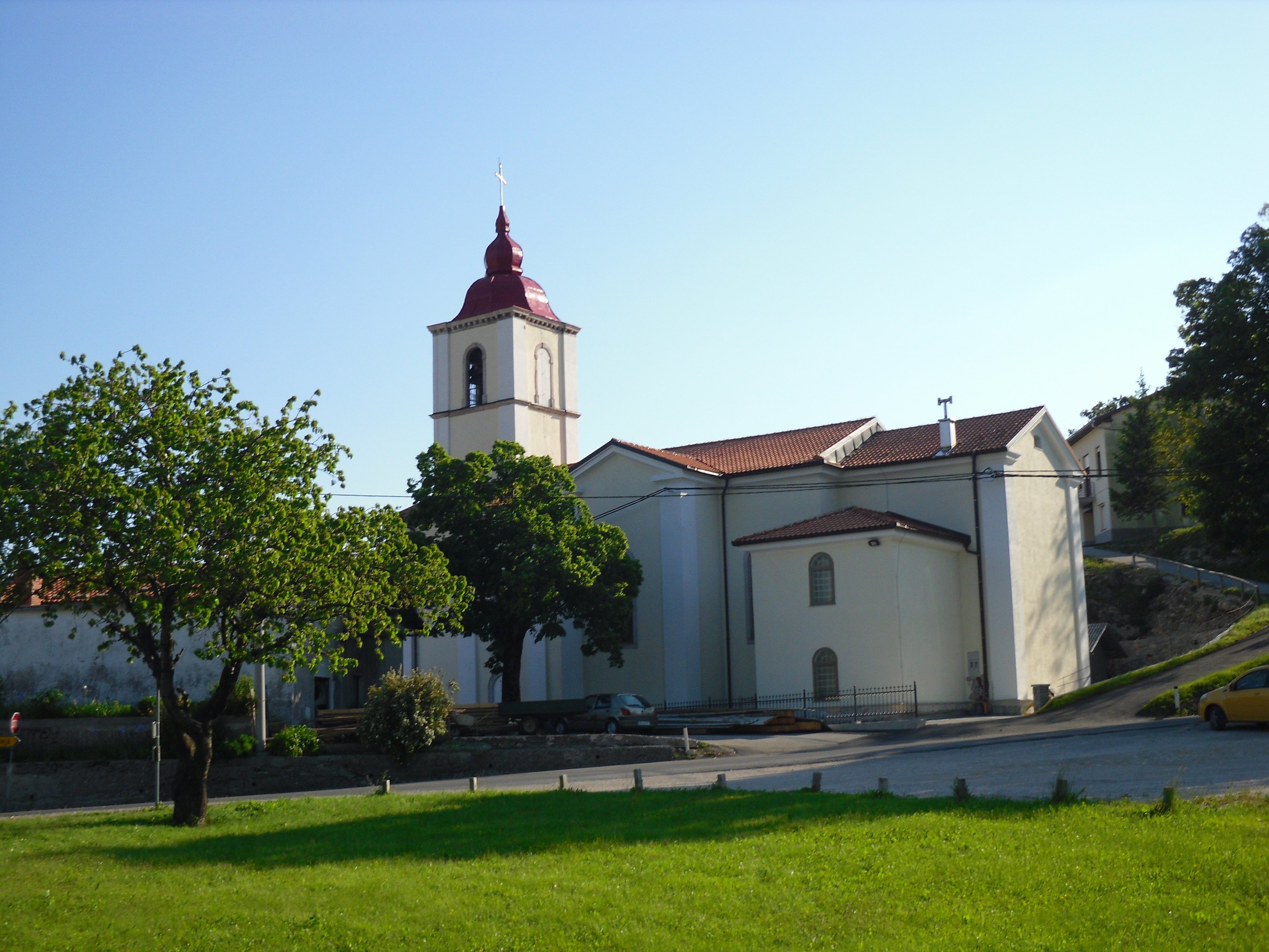 Col